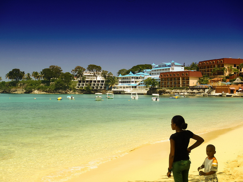 Soaua Beach